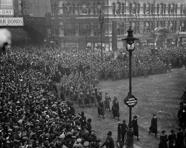 Photographer: Thomas Frederick Scales The Women's Army Auxiliary Corps marching in London at the end of World War I, 1918 Dry plate glass negative Reference No. 1/2-014074-G Royal New Zealand Returned and Services' Association Collection, Alexander Turnbull Library, National Library of New Zealand Thomas Scales was the official NZ photographer in the United Kingdom during World War I, and his works are Crown Copyright. More information regarding the image can be found at the Alexander Turnbull Library.